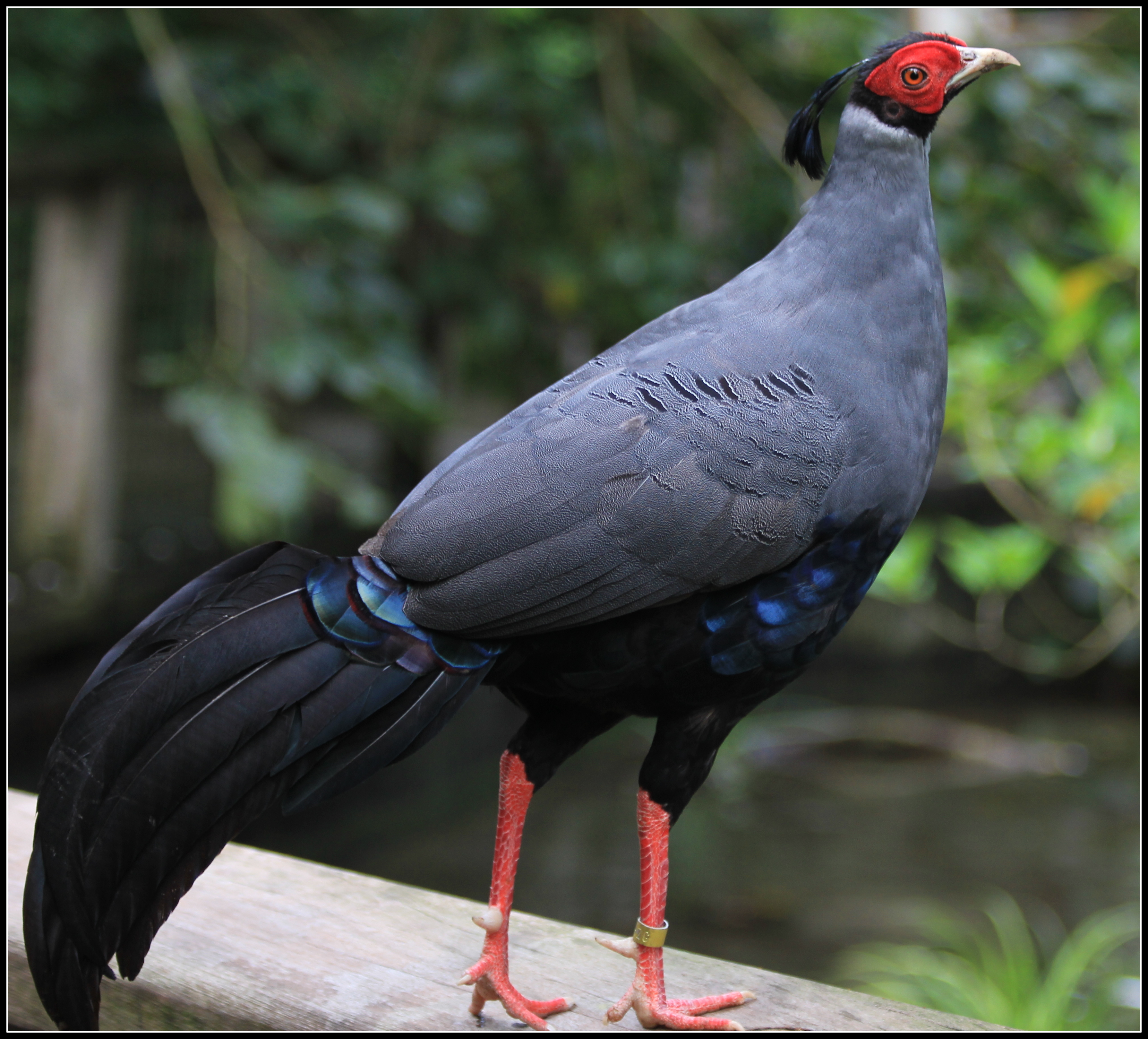 lophura diardi Siamese Fireback in captivity in Florida